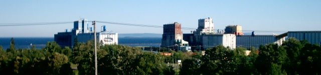 Grain elevators at the mouth of the Current River in Thunder Bay, Ontario.